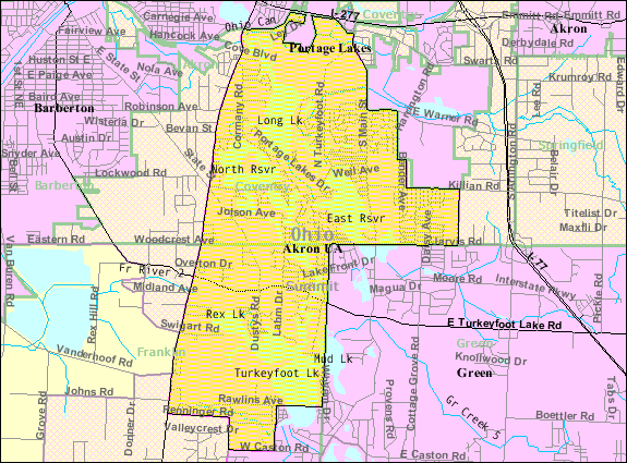 Map of Portage Lakes, a census-designated place (CDP) in Summit County, Ohio, United States. Map reflects the CDP as it was in 2000; everything south of Woodcrest Avenue in the middle has since been annexed to the city of New Franklin.